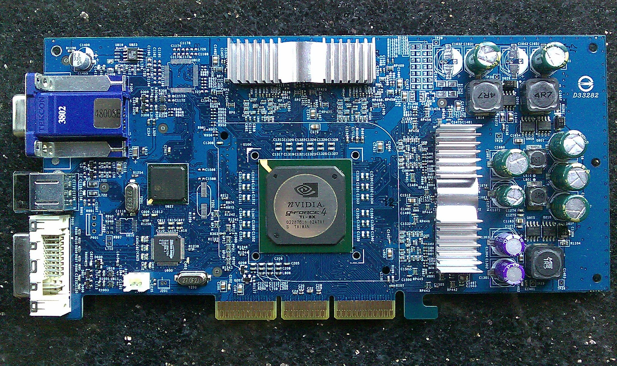 Albatron GeForce4 Ti 4800SE Graphic card